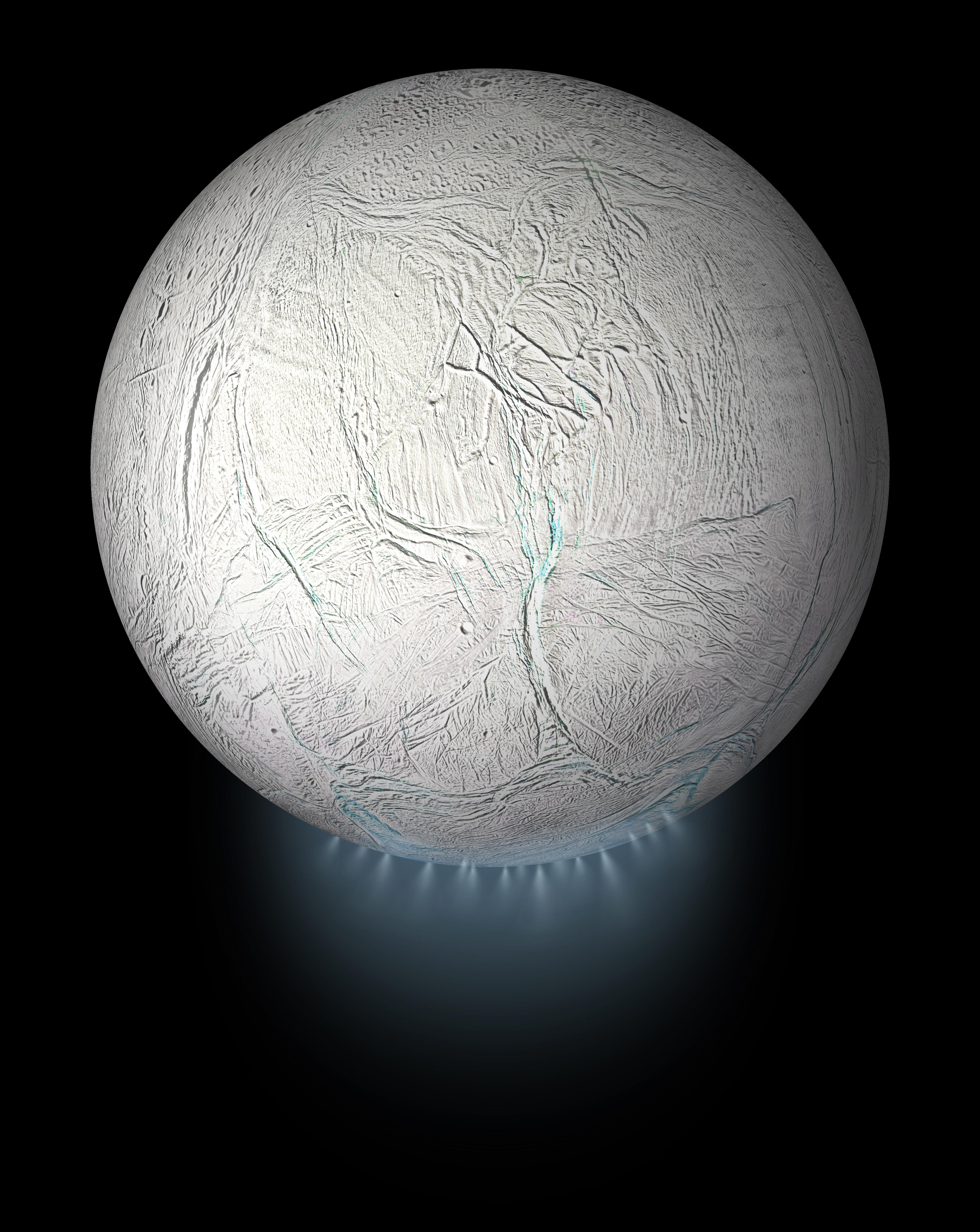 Saturn Moon - Enceladus - Artist Concept - February 24, 2020 PIA23175: Enceladus Global View with Plume (Artist's Rendering) This illustration shows Saturn's icy moon Enceladus with the plume of ice particles, water vapor and organic molecules that sprays from fractures in the moon's south polar region. A cutaway version of this graphic is also available, showing the moon's interior ocean and hydrothermal activity — both of which were discovered by NASA's Cassini mission (see PIA20013 ). This global view was created using a Cassini-derived map of Enceladus (see PIA18435 ). More information about Enceladus is available at For more information about the Cassini-Huygens mission visit